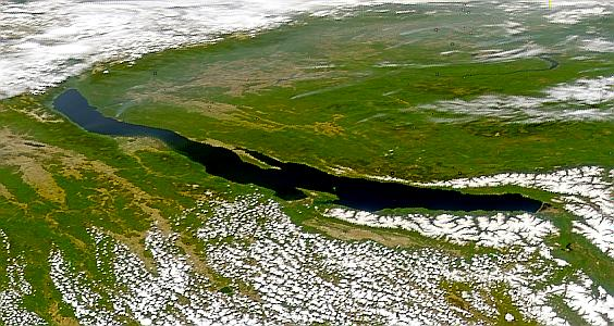 Lake Baikal Sensor OrbView-2/SeaWiFS Visible Earth v1 ID 5092